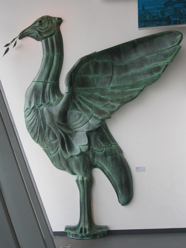 Liver bird relief, Museum of Liverpool, England.